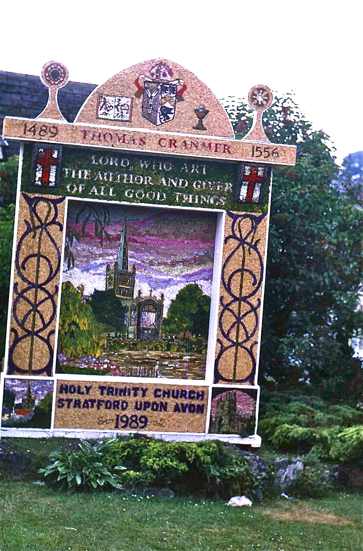 one of 2 wells